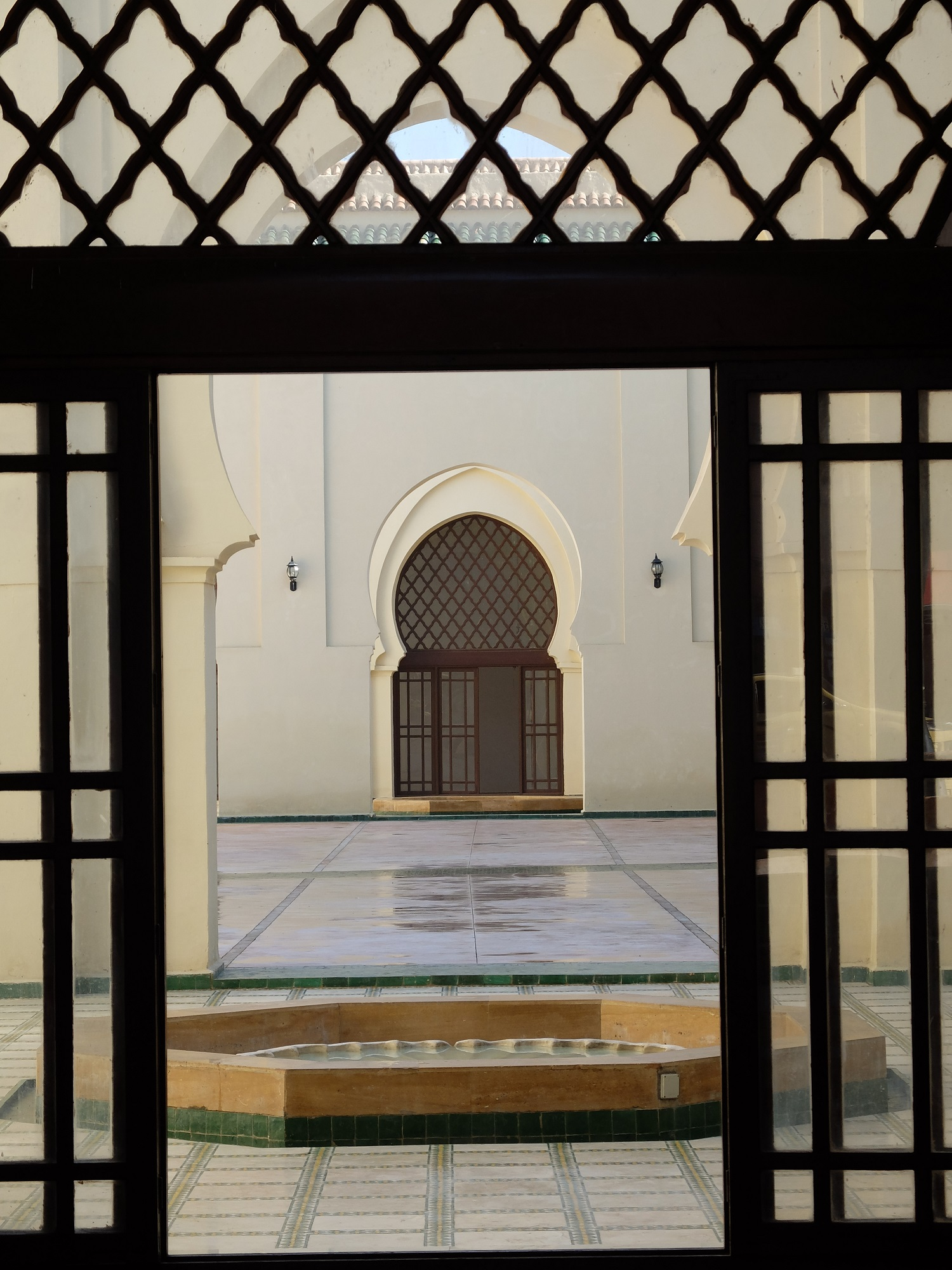 View towards the fountain of the southwestern courtyard (one of the smaller side-courtyards) of the Kasbah Mosque, with the main courtyard visible beyond and the symmetrical southwestern courtyard (with its own fountain basin) beyond that. Photo taken from one of the doorways of the mosque.